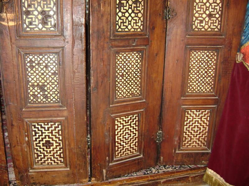 Door of Prophecies at the Christian Syrian Monastery in Egypt